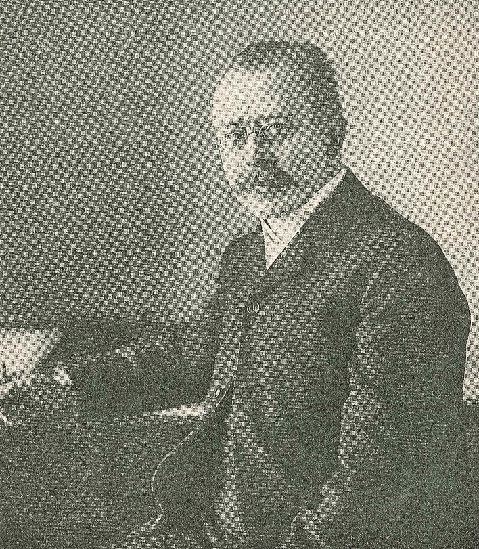 Agi Lindegren (1858-1927), Swedish architect and illustrator.